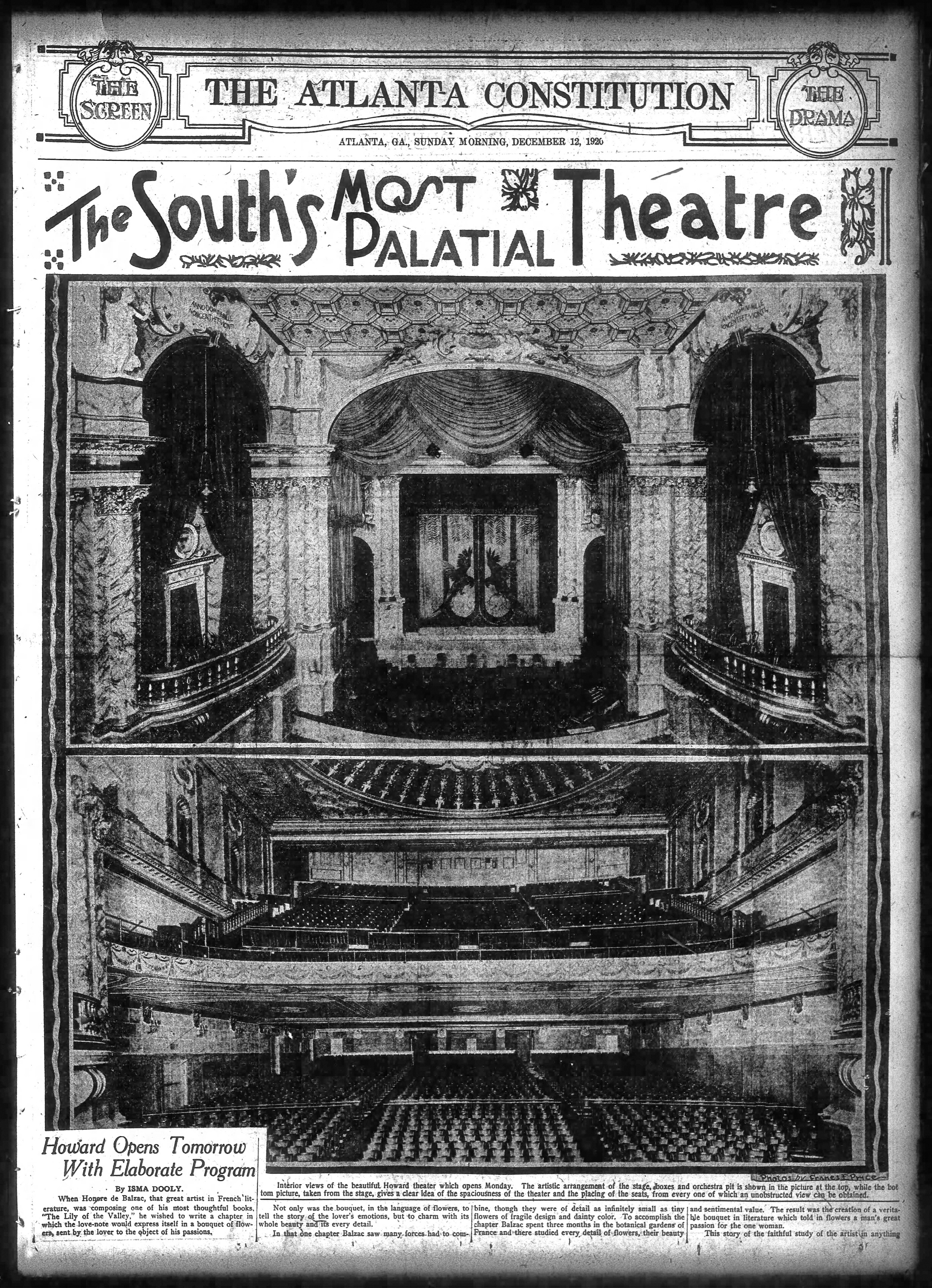 Opening of Howard Theater, Atlanta; article in Atlanta Constitution Dec. 12, 1920